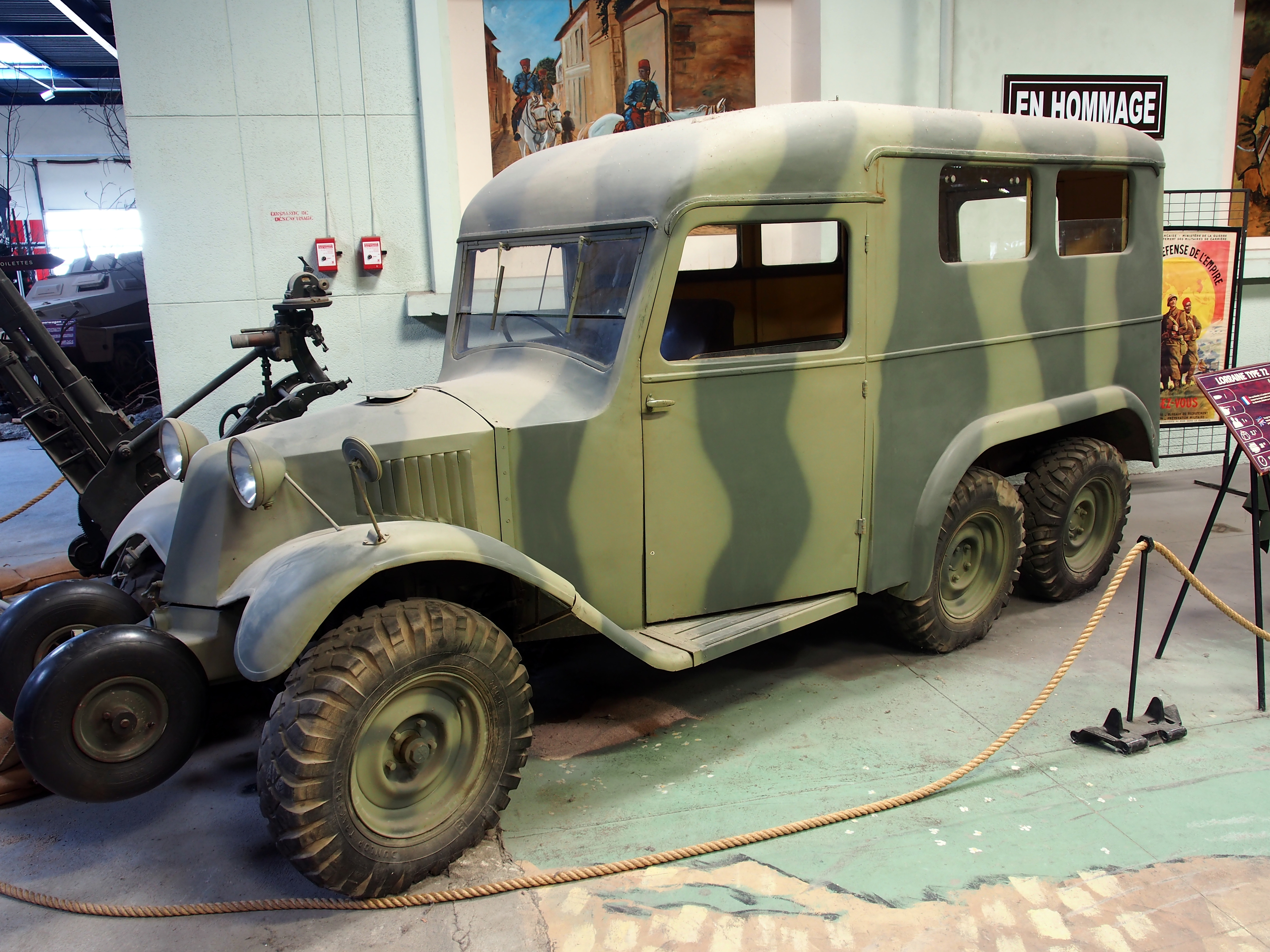 Photographed in the Musée des Blindés, France.